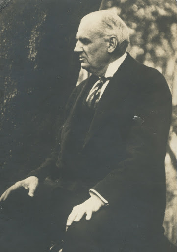 This is a portrait about Max Schmidt